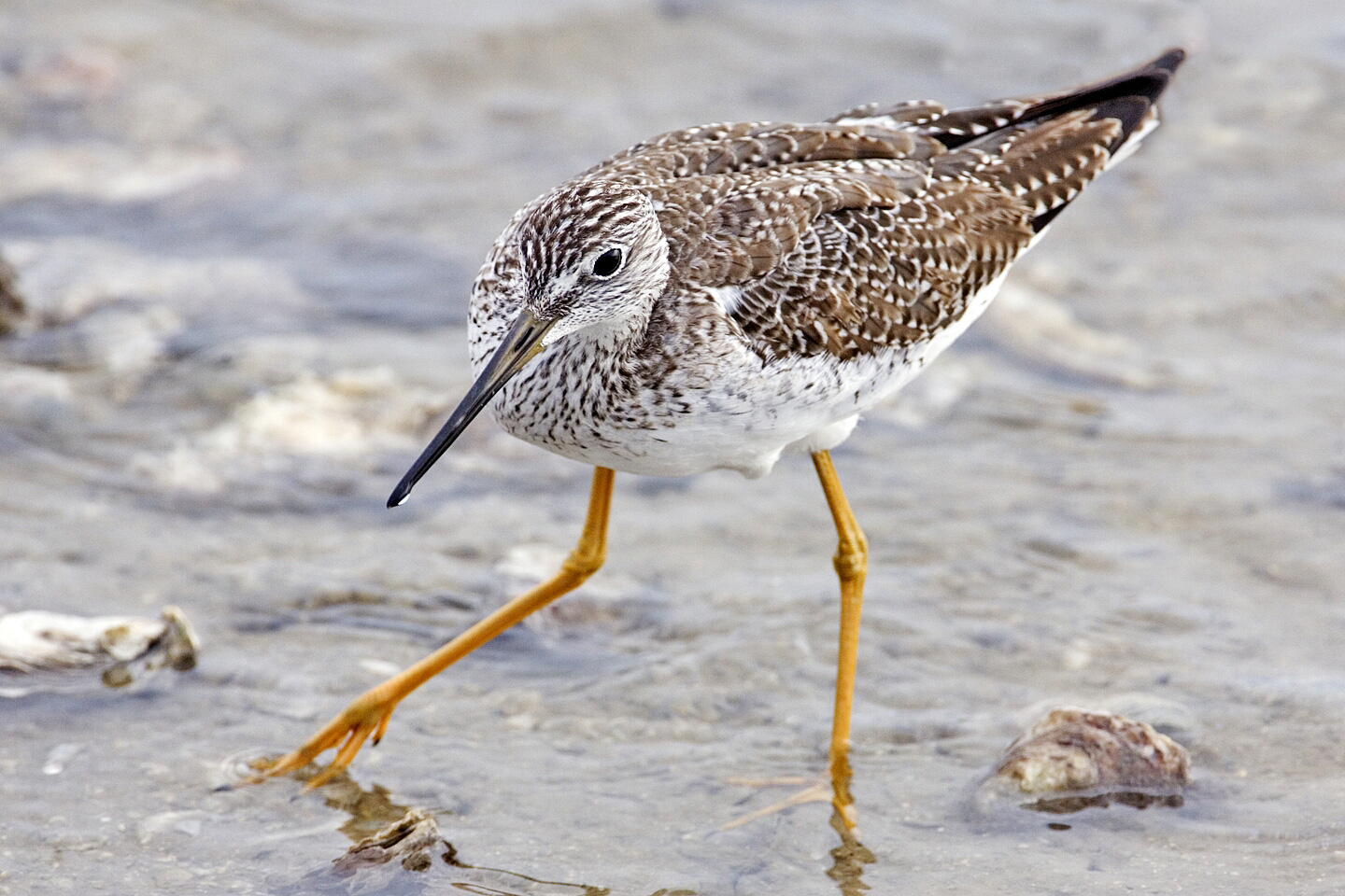 Immature Greater Yellowlegs, Fishing Pier, Goose Island State Park, Texas